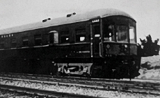 First track inspection car of China in 1953.